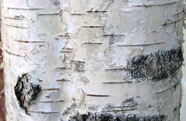 European Birch bark.